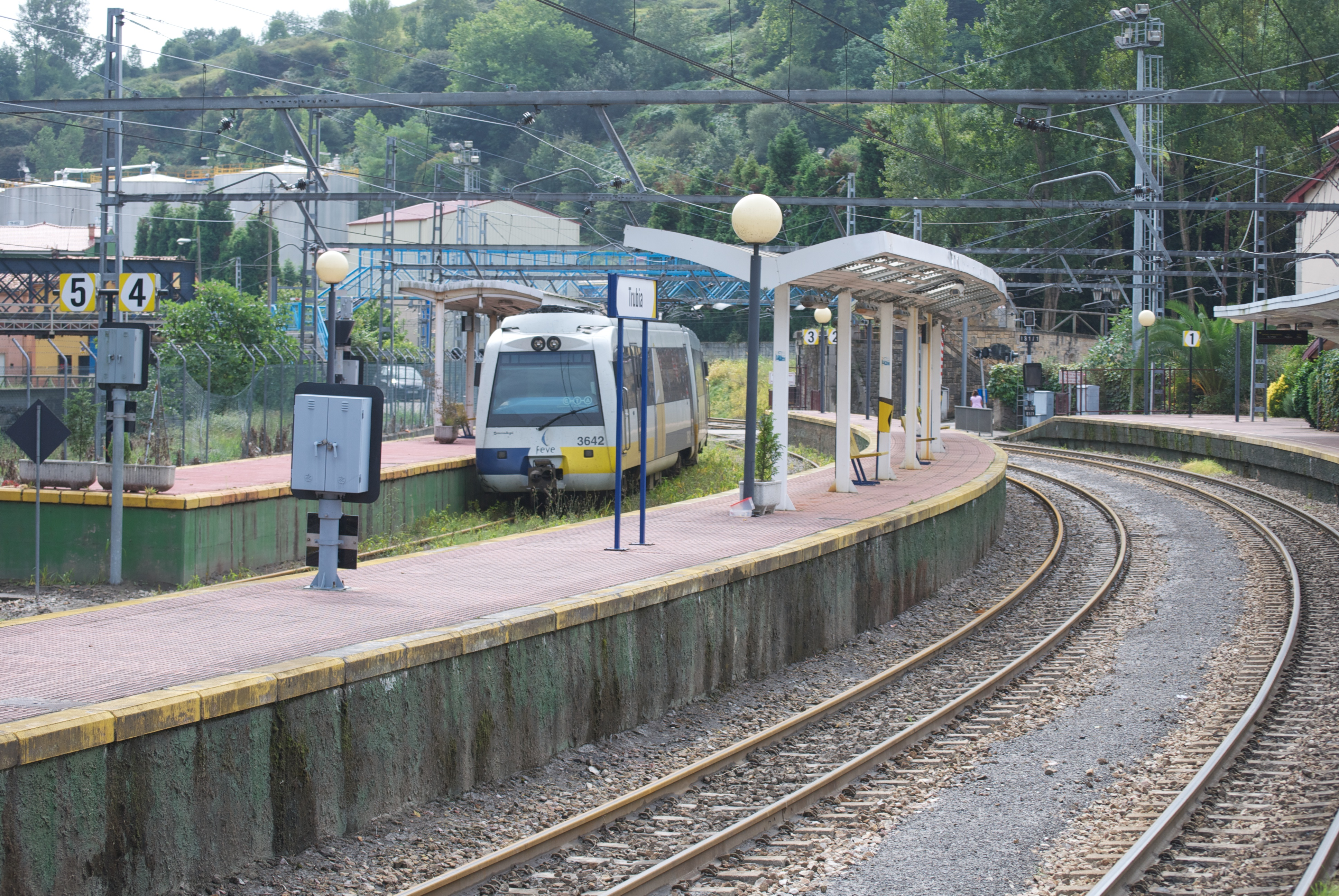 FEVE railway station in Trubia (Asturias, Spain).